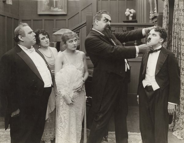 In this scene still from Chaplin's 1917 silent film The Adventurer, Eric Campbell, made-up with large eyebrows, beard, and mustache, closely scrutinizes Charlie Chaplin's face. Watching, from left to right, are Henry Bergman, Marta Golden, and Edna Purviance.